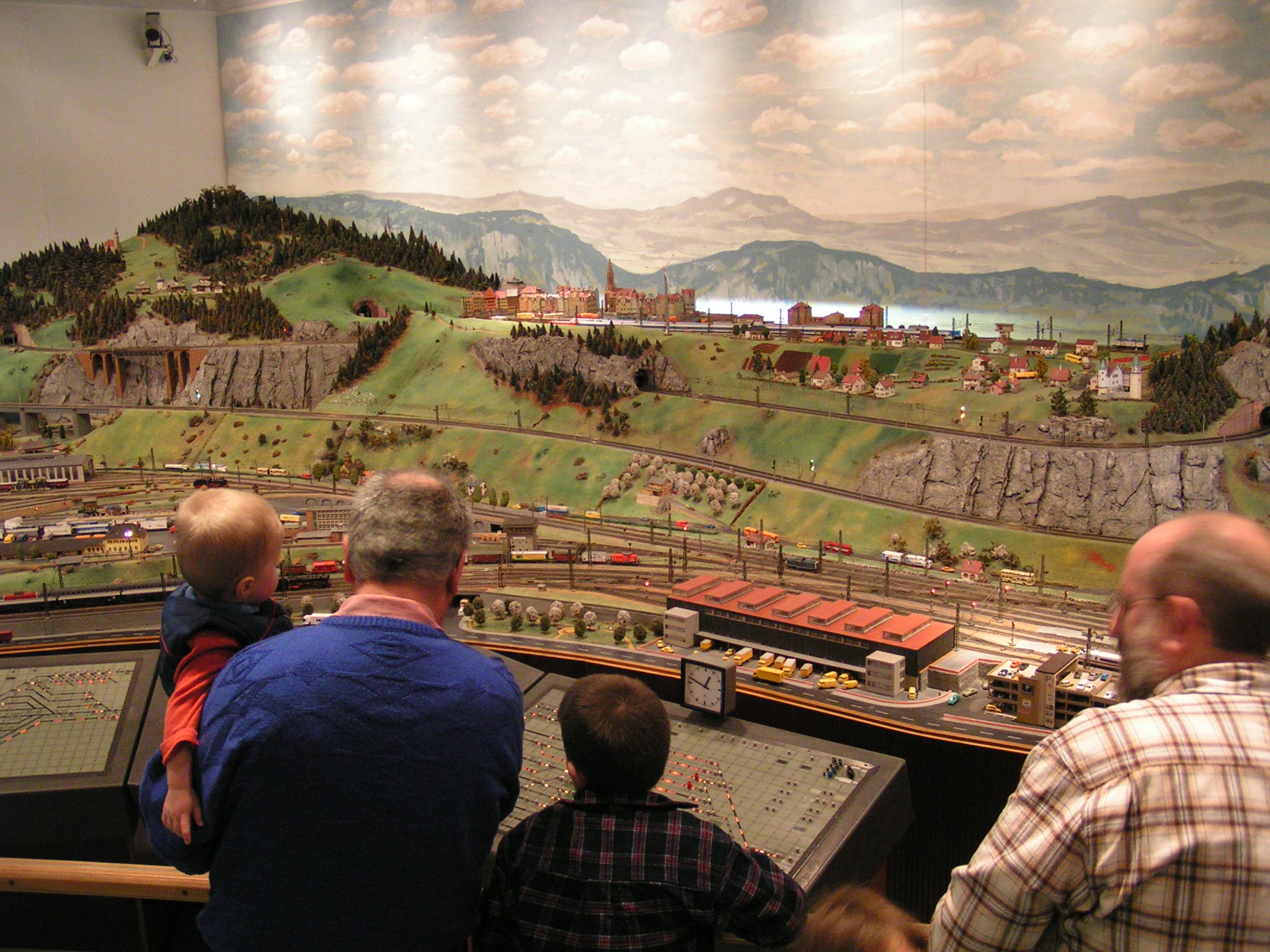 Model railroad at DB museum, Nuremberg